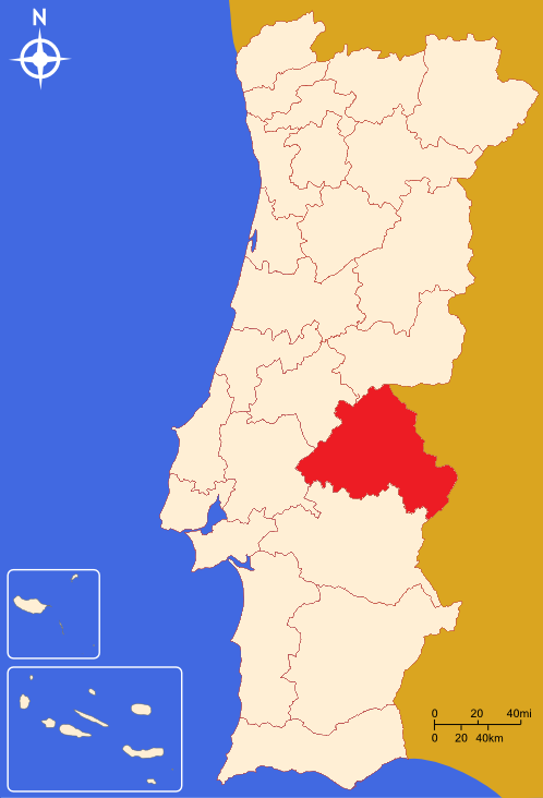 Comunidade Intermunicipal do Alto Alentejo